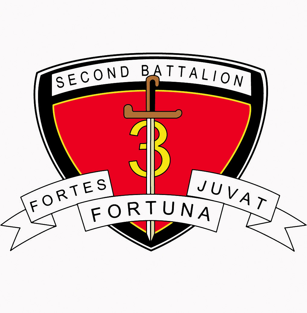 From the Depart of Defense image search website - Defense Visual Information Center. Picture comes up if you search for 2nd Battalion, 3rd Marine Regiment ID: DM-SD-05-12368 Service Depicted: Marines Official logo 2nd Battalion, 3rd Marine Regiment. Location: MCBH, KANEOHE BAY, HAWAII (HI) UNITED STATES OF AMERICA (USA) Date Shot: 1 Jan 2005